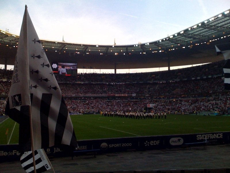 "Gwenn ha du" (breton flag) in the Stade de France, before French cup final 2008-2009 between Stade rennais FC and En avant de Guingamp